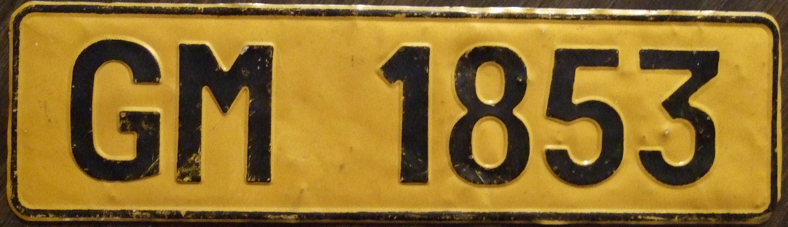 License plate from Gazankulu homeland, 1972.